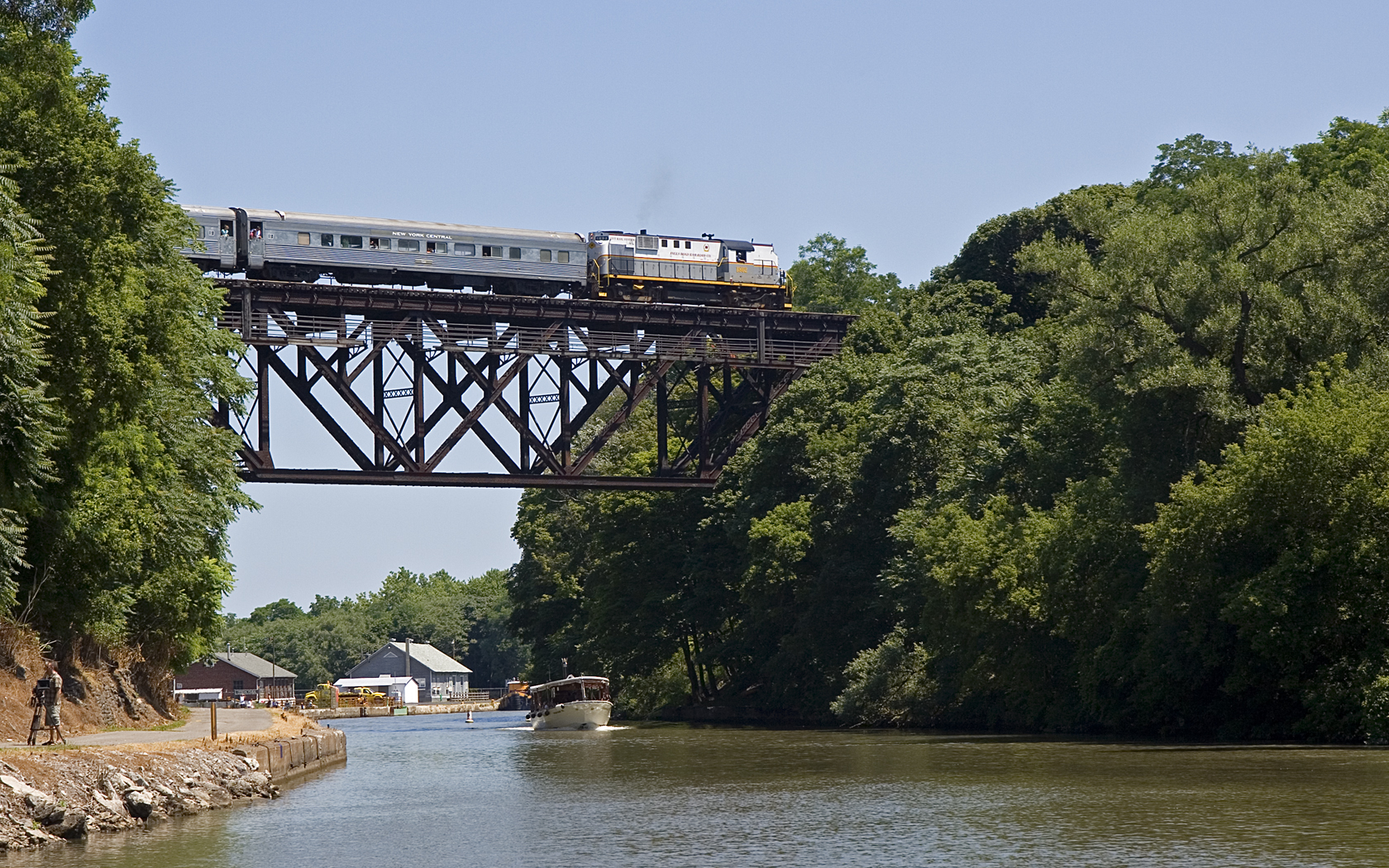 A Deck truss railroad bridge over the Erie Canal in Lockport, New YorkOriginal description from Flickr: "An Alco lomotive leads a passenger excursion train from Lockport, NY to Medina, NY. This is the 'upside down bridge' in Lockport over the Erie Canal."